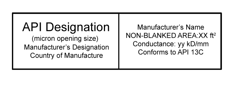 API label